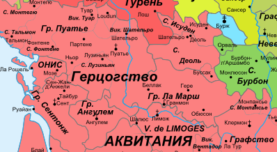 Map of Poitou in 1180